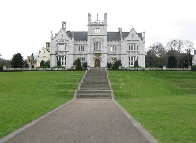 Greenhithe: Ingress Abbey The building dates from the 1830s when Alderman James Harmer commissioned the architect Charles Moreing to design it. The cost of the house was £120,000 and reclaimed stone from the old London Bridge was used. The building subsequently became the shore base of HMS Worcester, the Thames Nautical Training College, before falling derelict. It was however completely refurbished by the builders Crest Nicholson when they purchased the Ingress Estate in 1991, and now forms the focal point of the Ingress Park residential estate. The building is Grade II listed and is now used as offices.